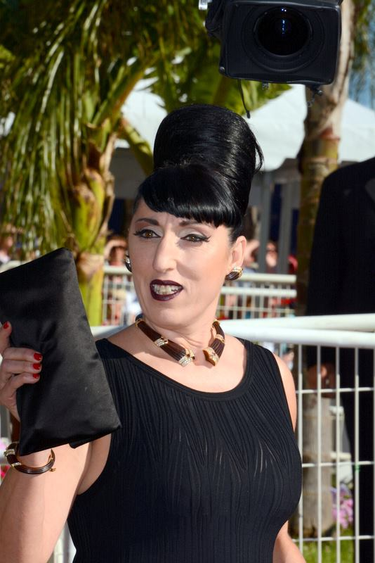 Rossy De Palma at the Cannes film festival